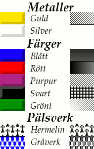 Swedish language version of Image:Tinctures.gif